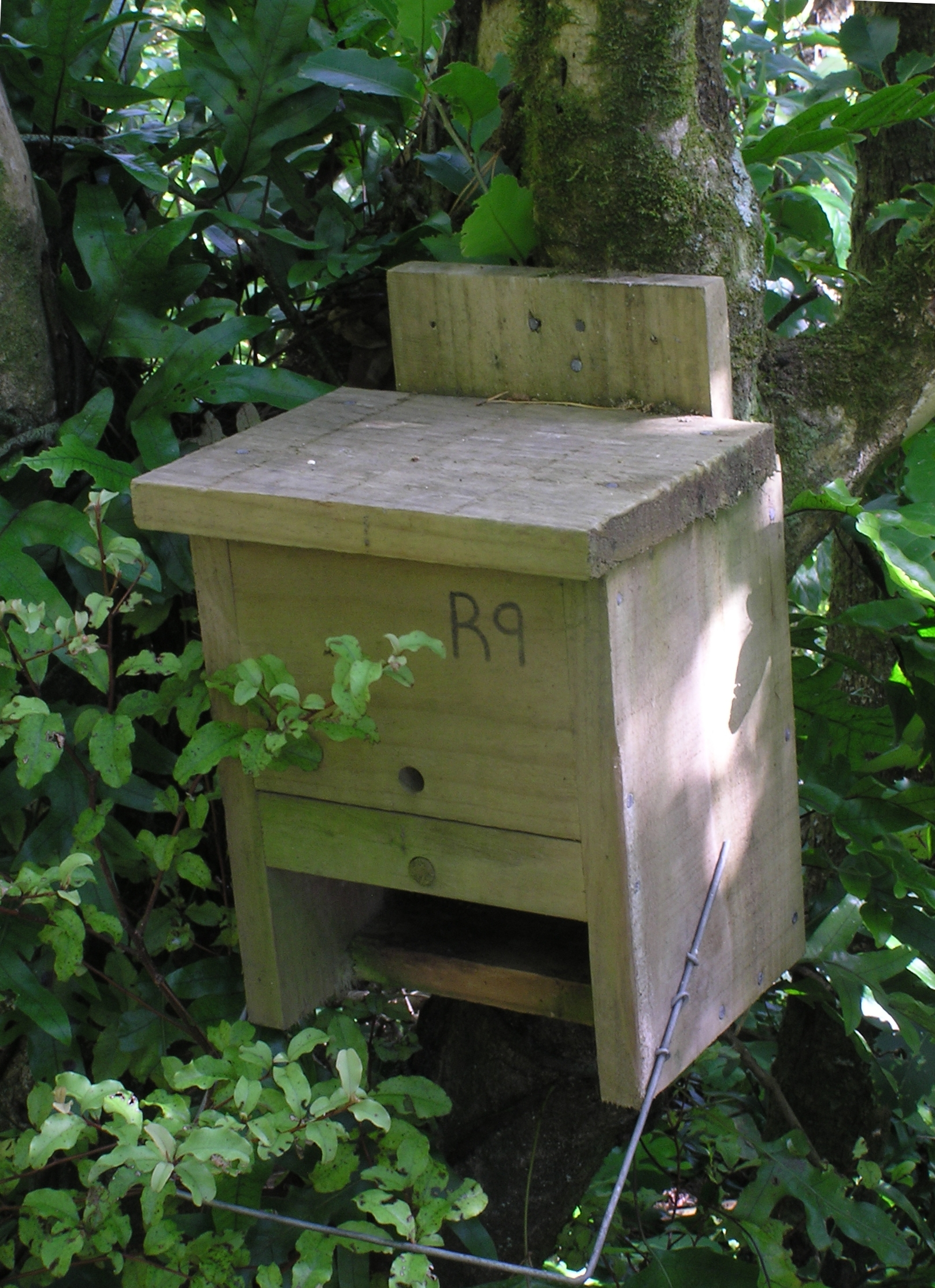 Nest boxes to encourage Tieke or North Island Saddleback birds to nest in Karori Sanctuary despite the lack of old trees with suitable nesting holes. Karori Wildlife Sanctuary (Zealandia), Wellington, New Zealand.